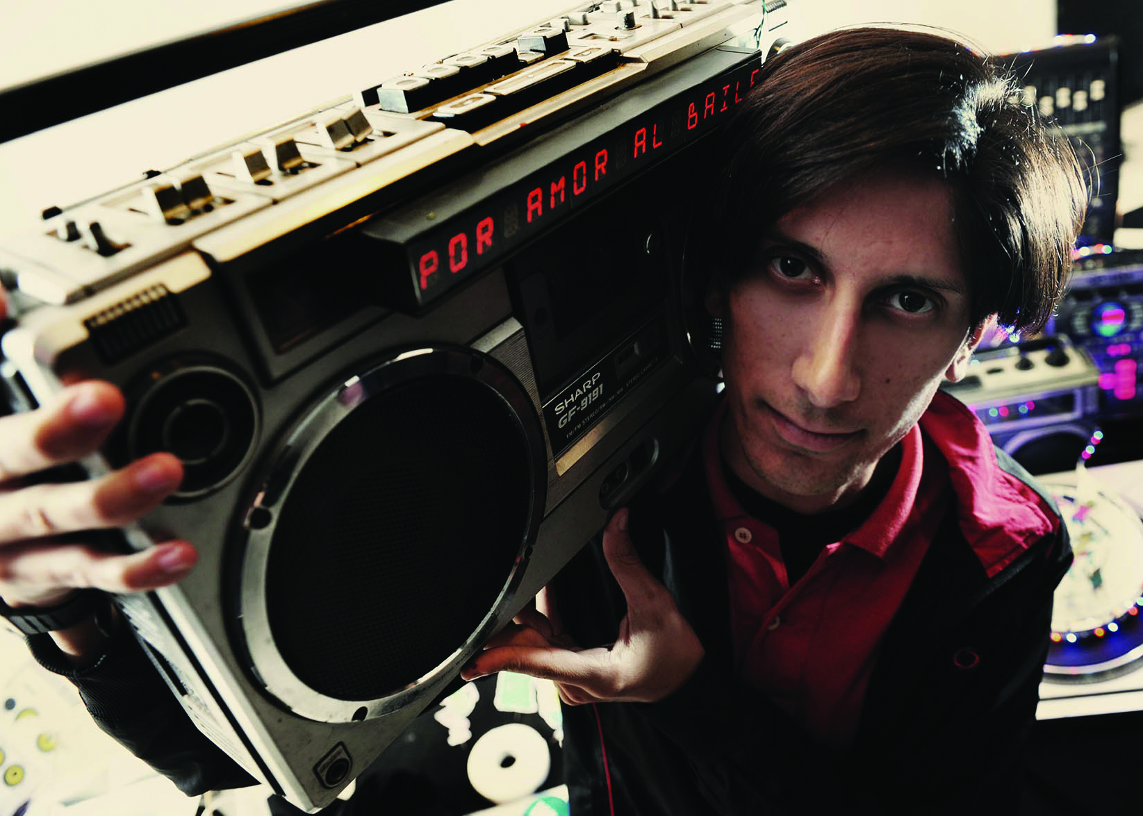 Buenos Aires, 5 de mayo 2015 - DJ Villa Diamante participará de la Expo Milán 2015.